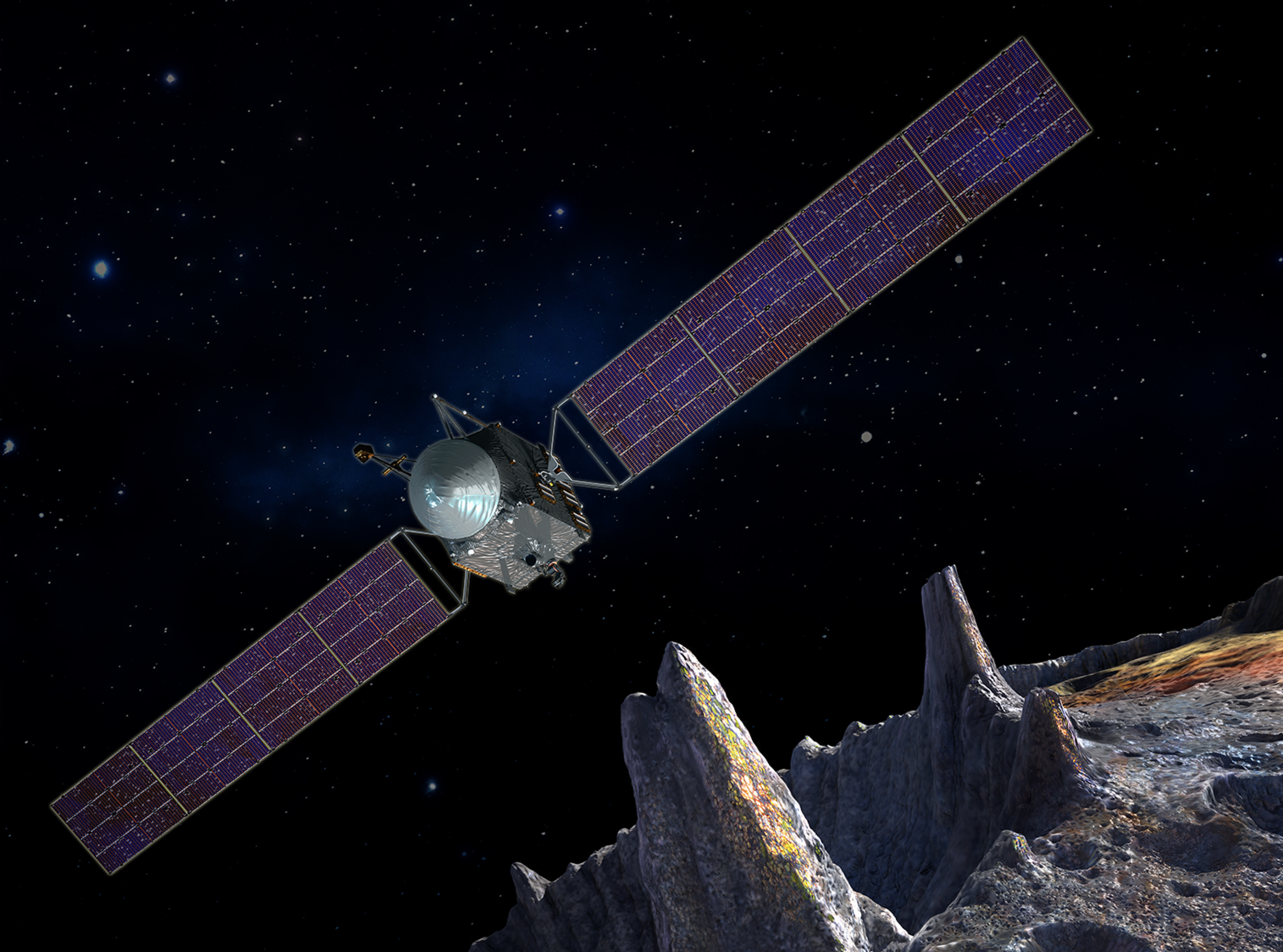 Artist's concept of the Psyche spacecraft, which will conduct a direct exploration of an asteroid thought to be a stripped planetary core.